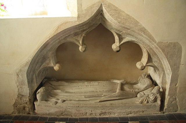 A 14th century lady Late 14th century tomb to a lady below an ogee arch, thought to be Eleanor Bayard